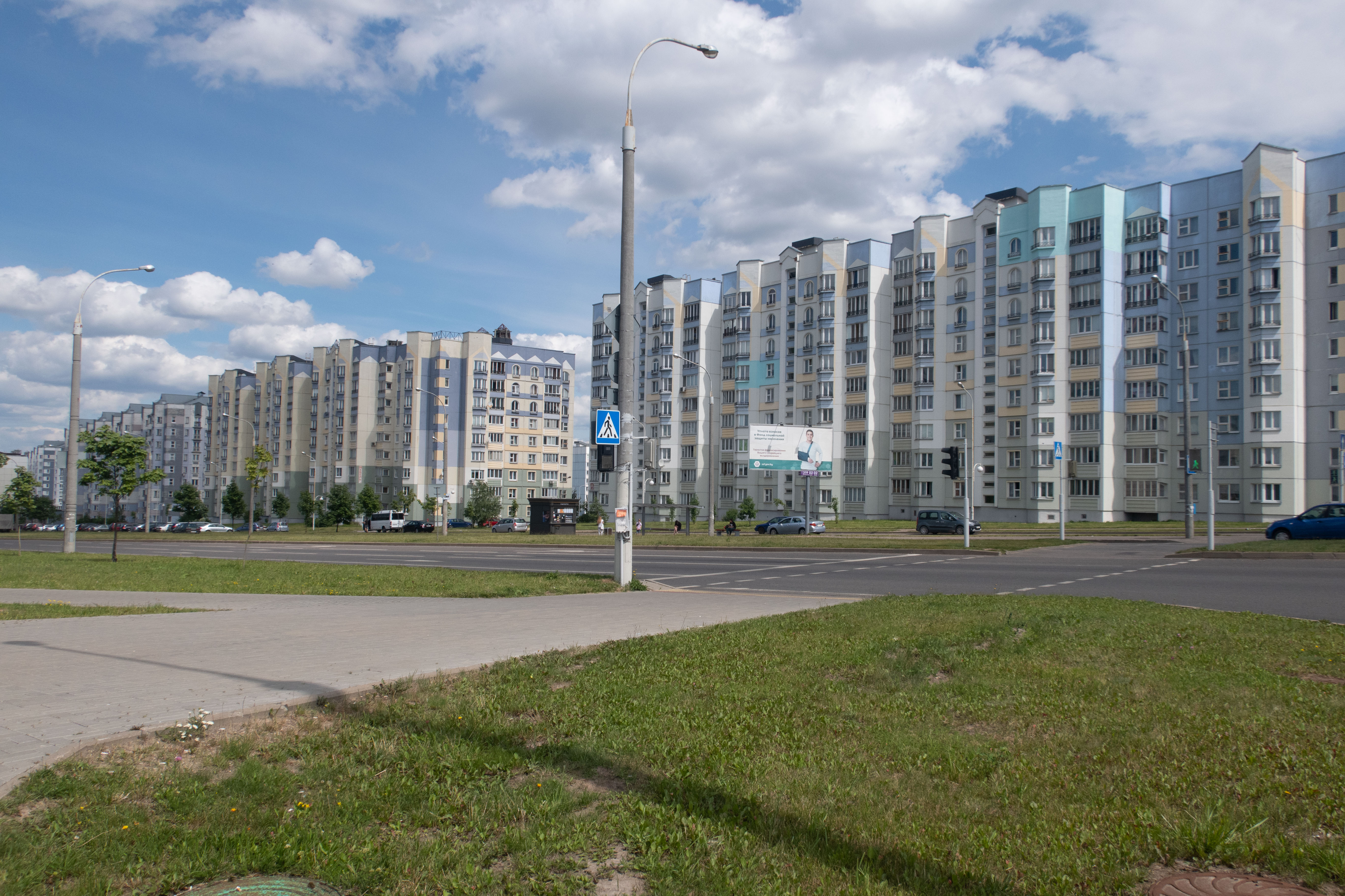 Dambroŭka-3. Minsk, Belarus